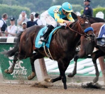 Paynter (9) and Mike Smith were 2nd.